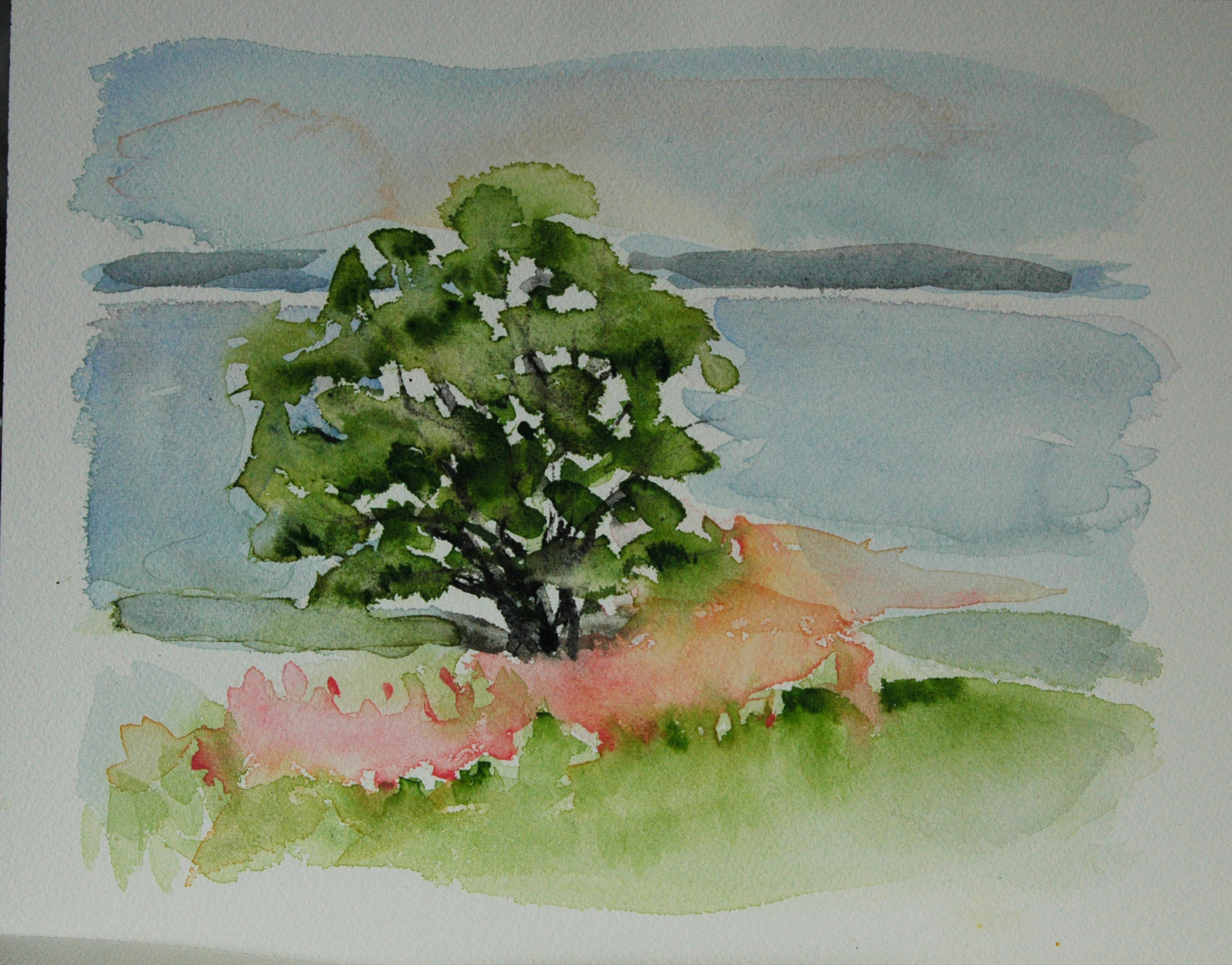 Water colour painting by the Norwegian artist Solrunn Rones